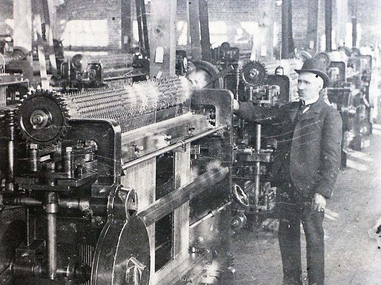 Chester Wickwire in the Wickwire Brothers Factory, his own factory, in Cortland, New York.